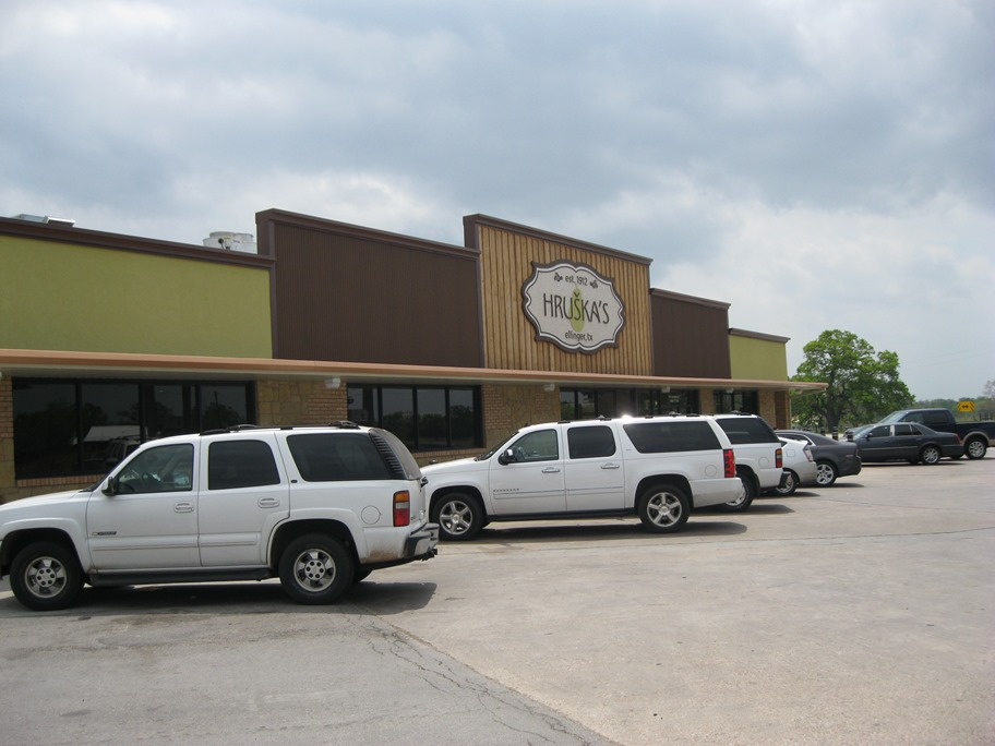 Photo shows Hruska's (pronounced Rooska's) Store and Bakery in Ellinger, Texas on Highway 71. The view is to the west.